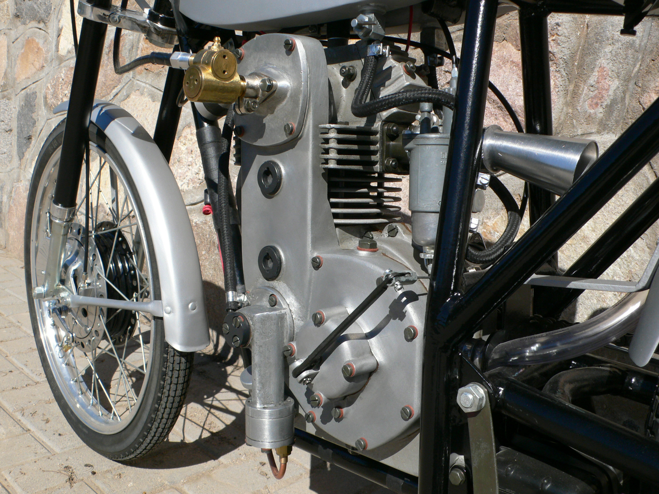 Detalle motor Tehuelche